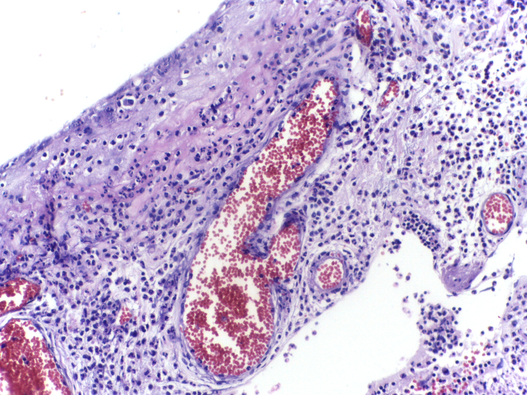 Neutrophil margination and extravasation in acute inflammation